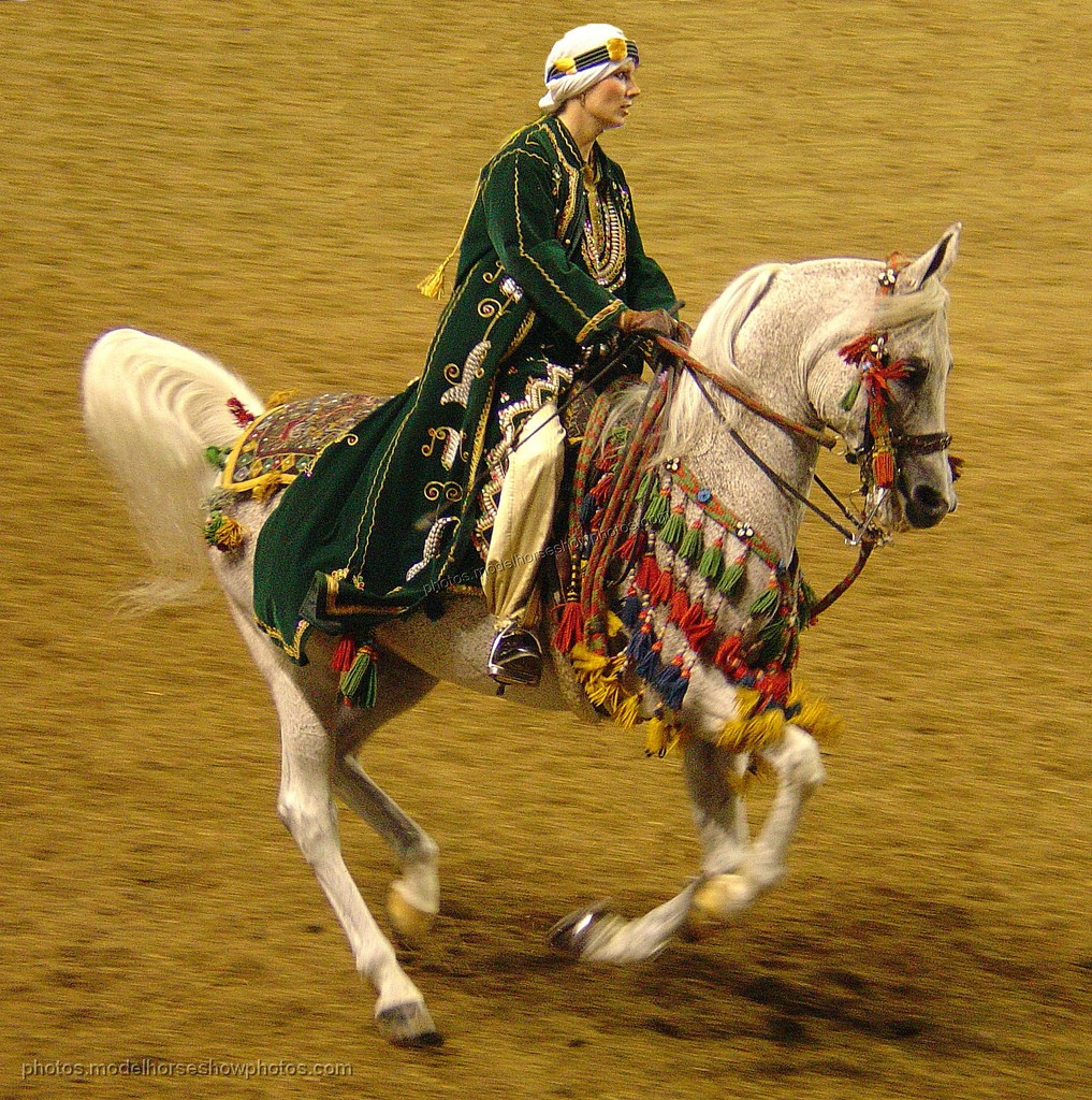 Photo by Heather Moreton Abounader (please forgive the old watermark with my old website on it)